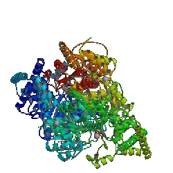 Recombinant Pyruvate dehydrogenase (E1) with oxalacetate (magenta) and an acetyl-CoA analogue (white) bound. PDB code: 1W85